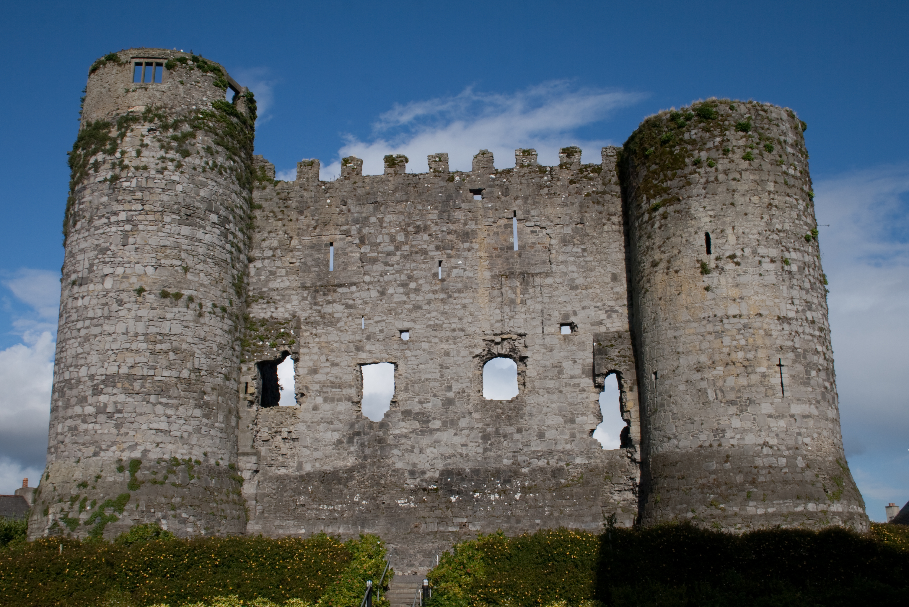 Carlow, County Carlow, Ireland West side of Carlow Castle